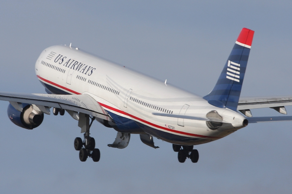 US Airways Airbus A330 N272AY